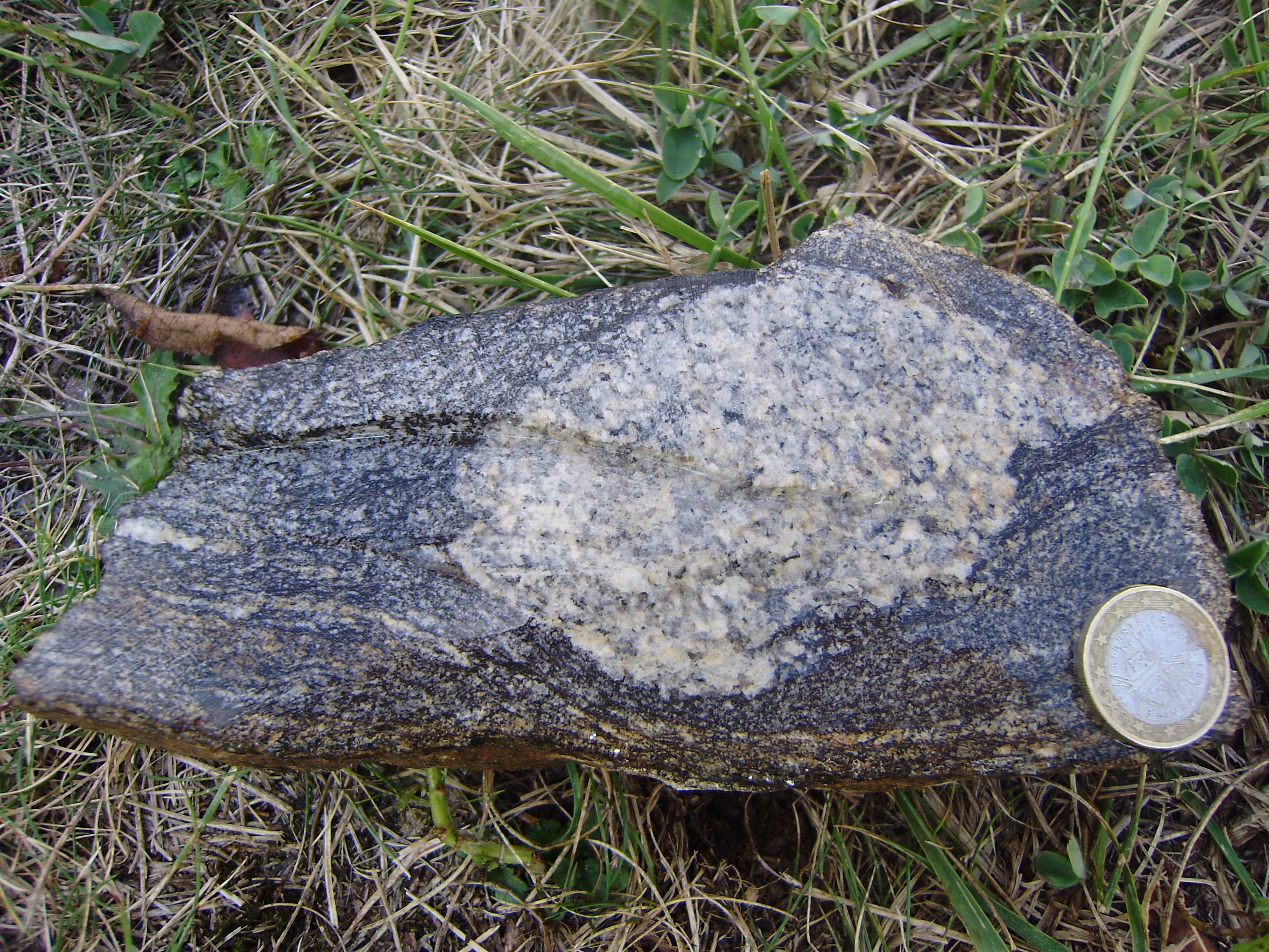 Anatectic lens in a plagioclase-rich paragneiss from Nontron. The rocks belong to the Arvernian domain of the French Massif Central. The "porphyroblastic" quartzo-feldspathic lens indicates dextral shearing.